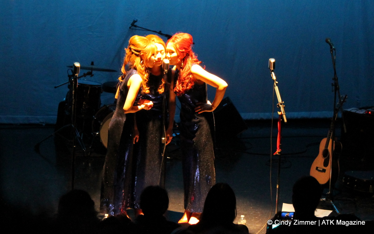 The Barberettes in Toronto (35), (Left - Right) Sohee Park, Grace Kim, Shinae An Wheeler.